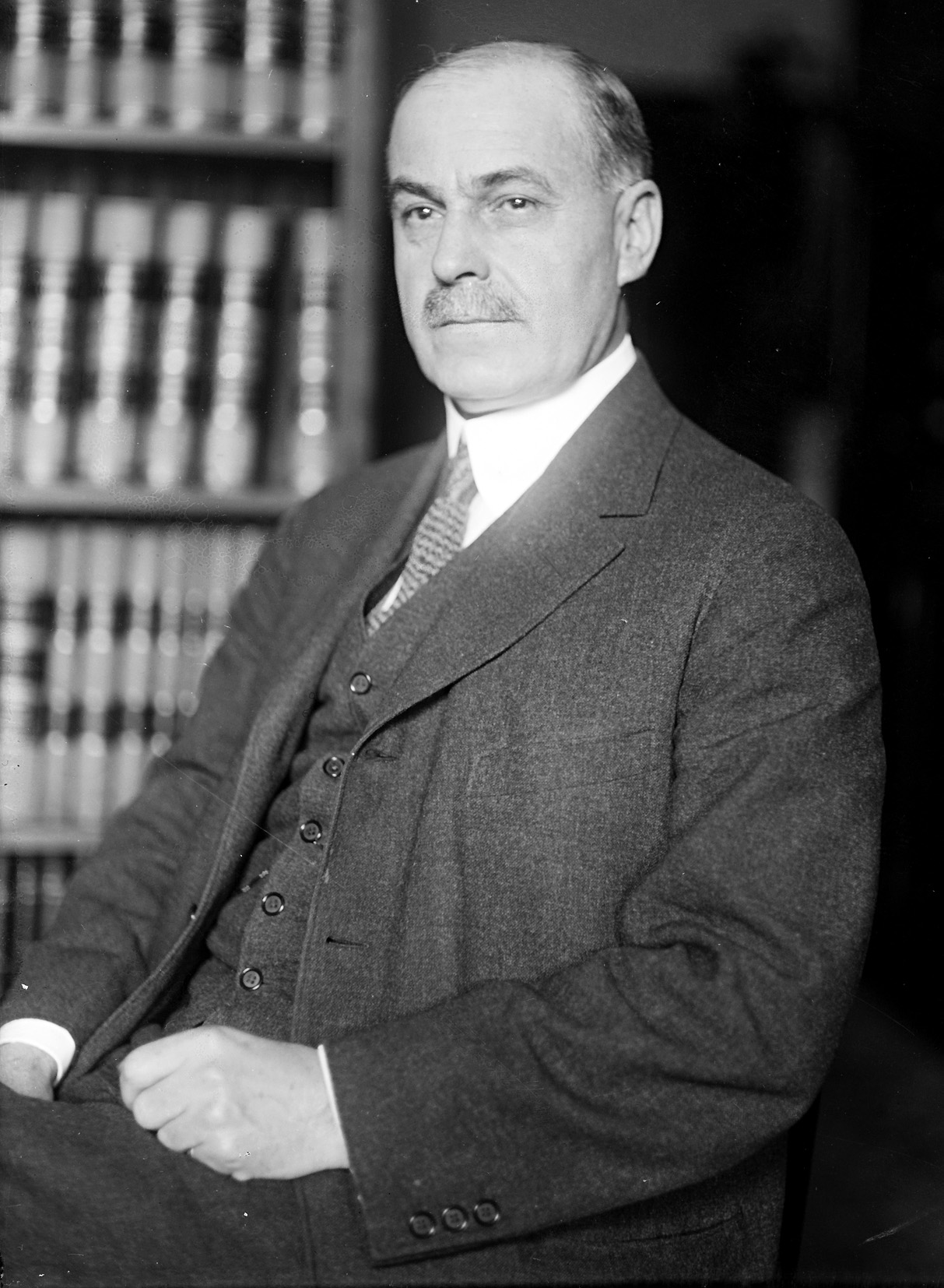 Sherman Everett Burroughs, US Representative from New Hampshire